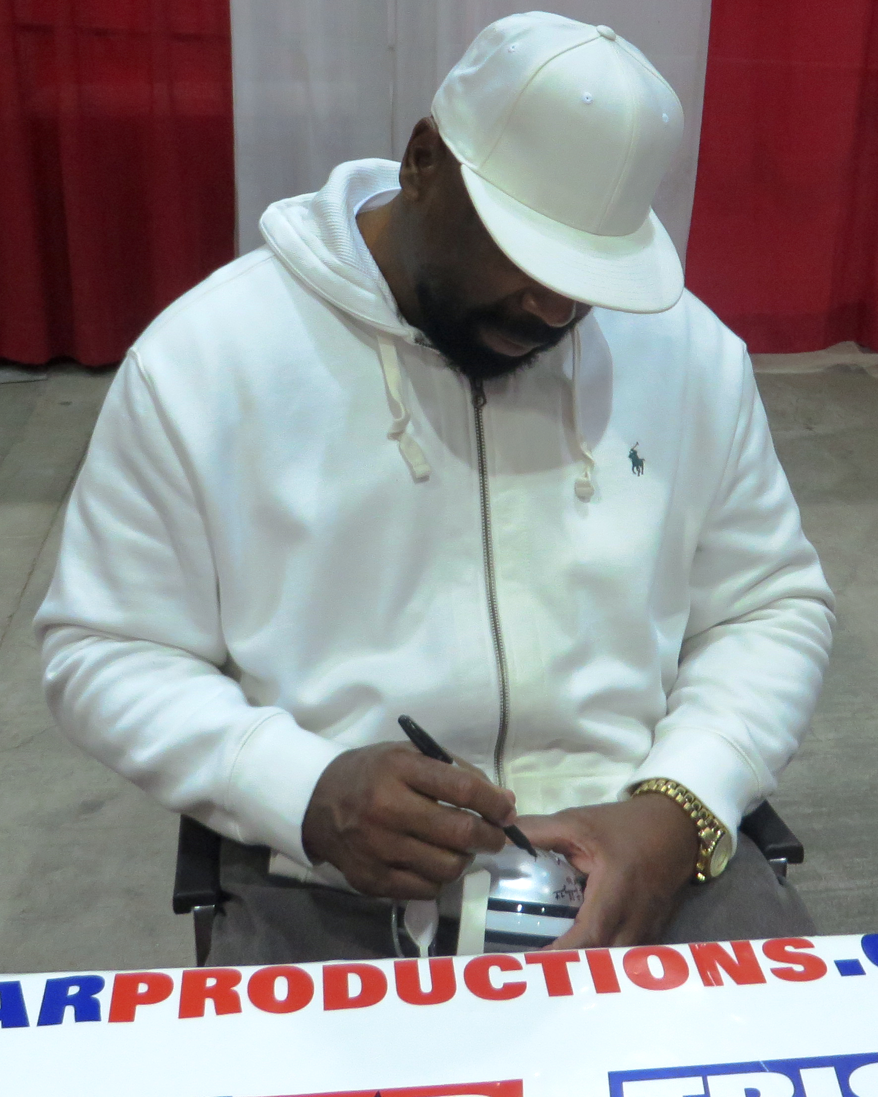 Ed "Too Tall" Jones signs autographs at a Houston sports collectors show in January 2014.